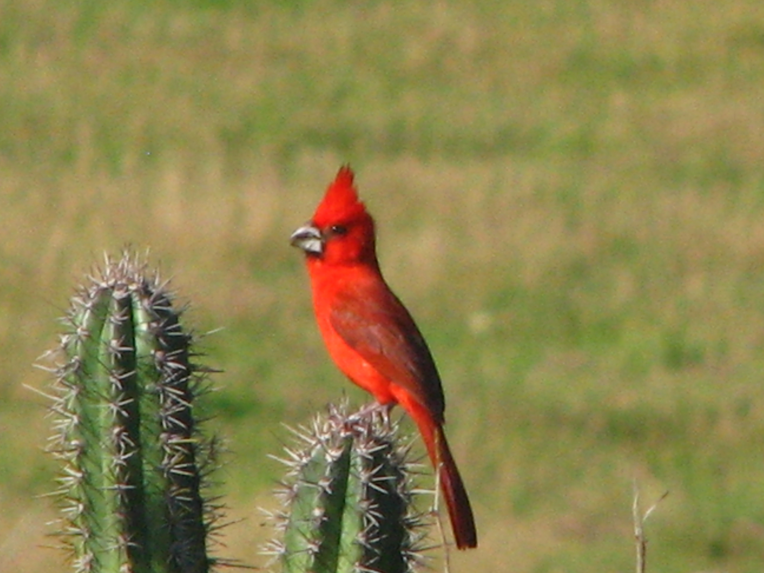 Took at Margarita Island, Venezuela